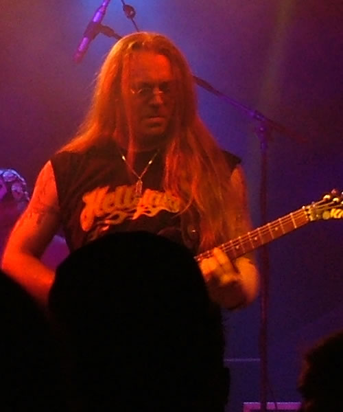 Zachary Hietala from Tarot